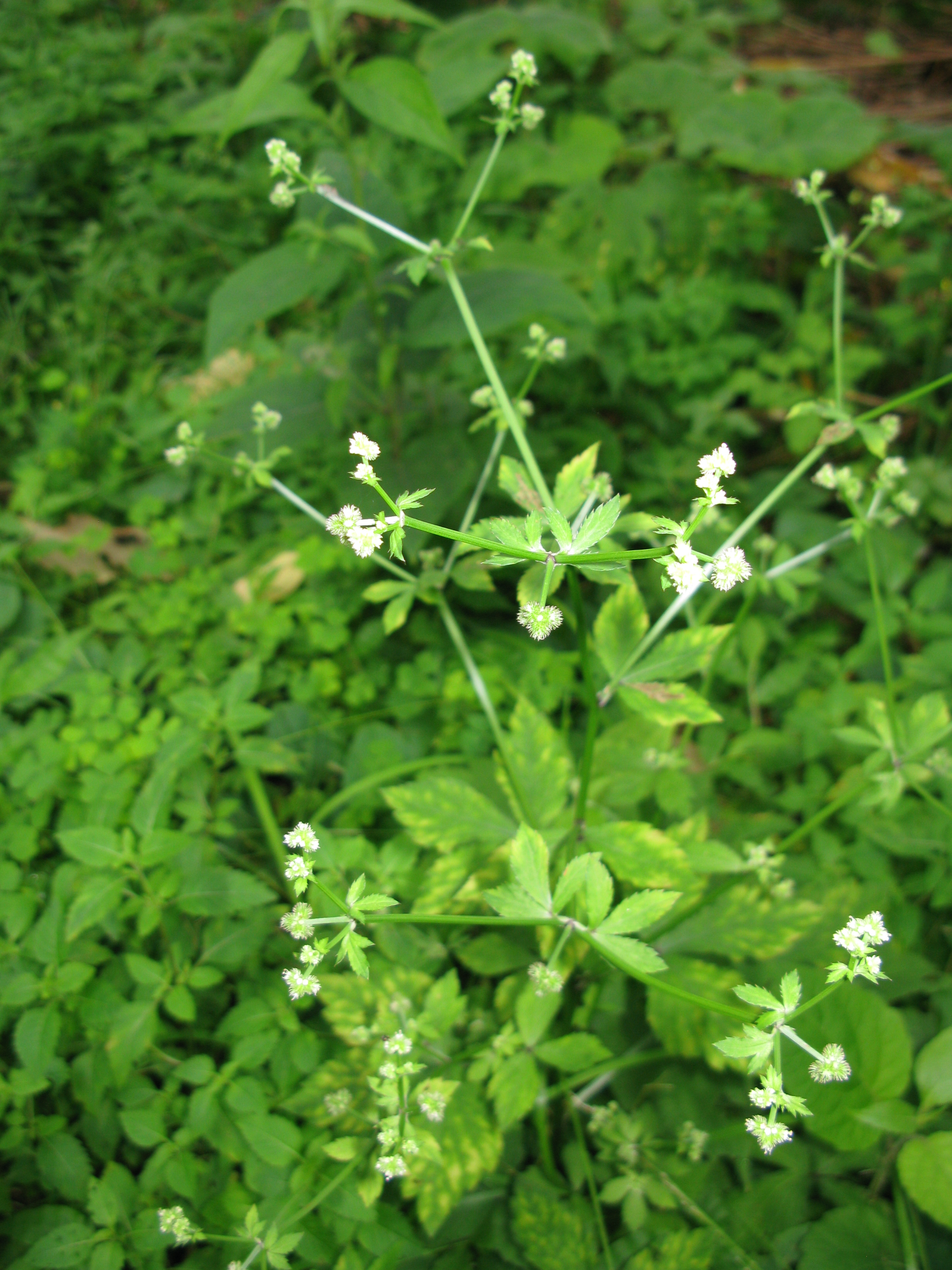 Sanicula chinensis, Aizu area, Fukushima pref., Japan